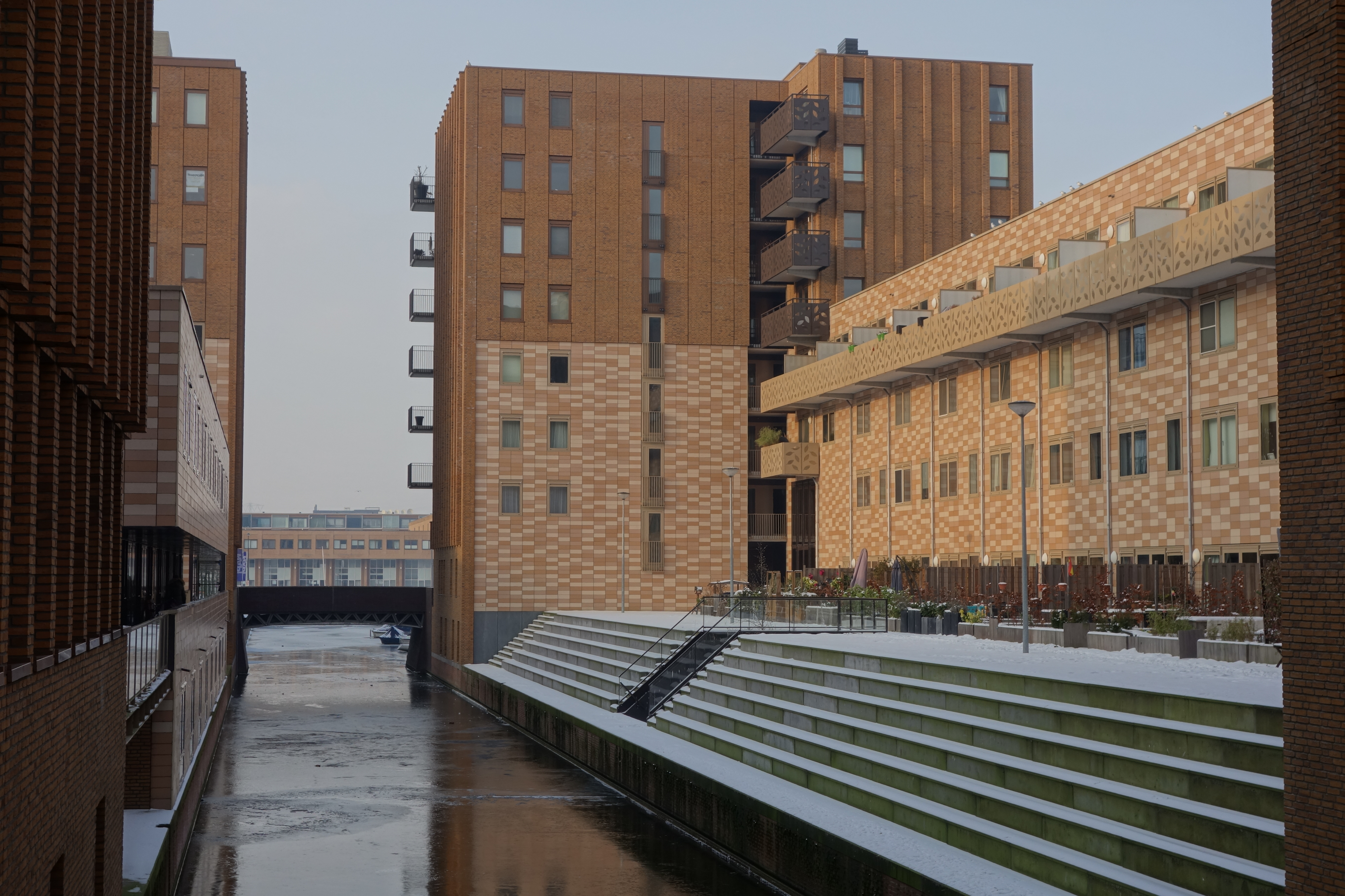 IJburg neighborhood in Amsterdam